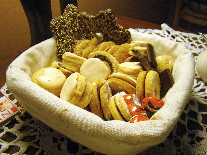 Christmas cookies in Poland